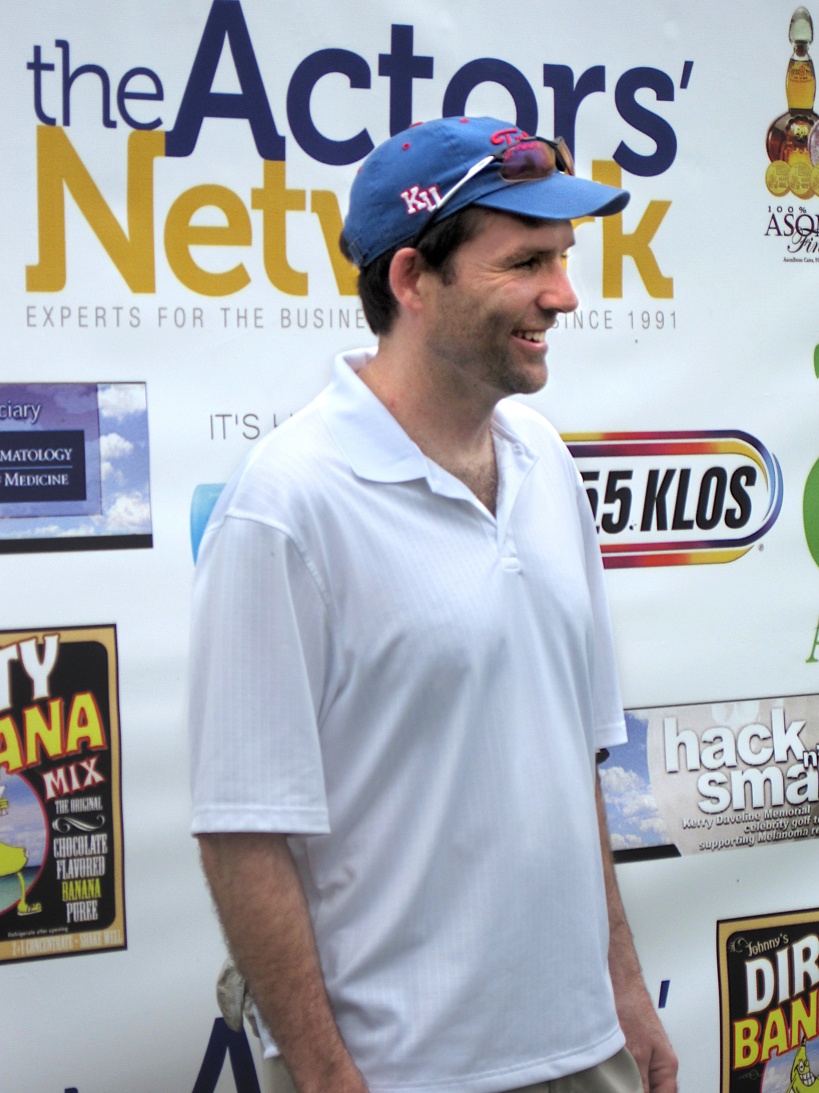 David Rees Snell at the 8th Annual Hack n' Smack Celebrity Golf Tournament in 2011